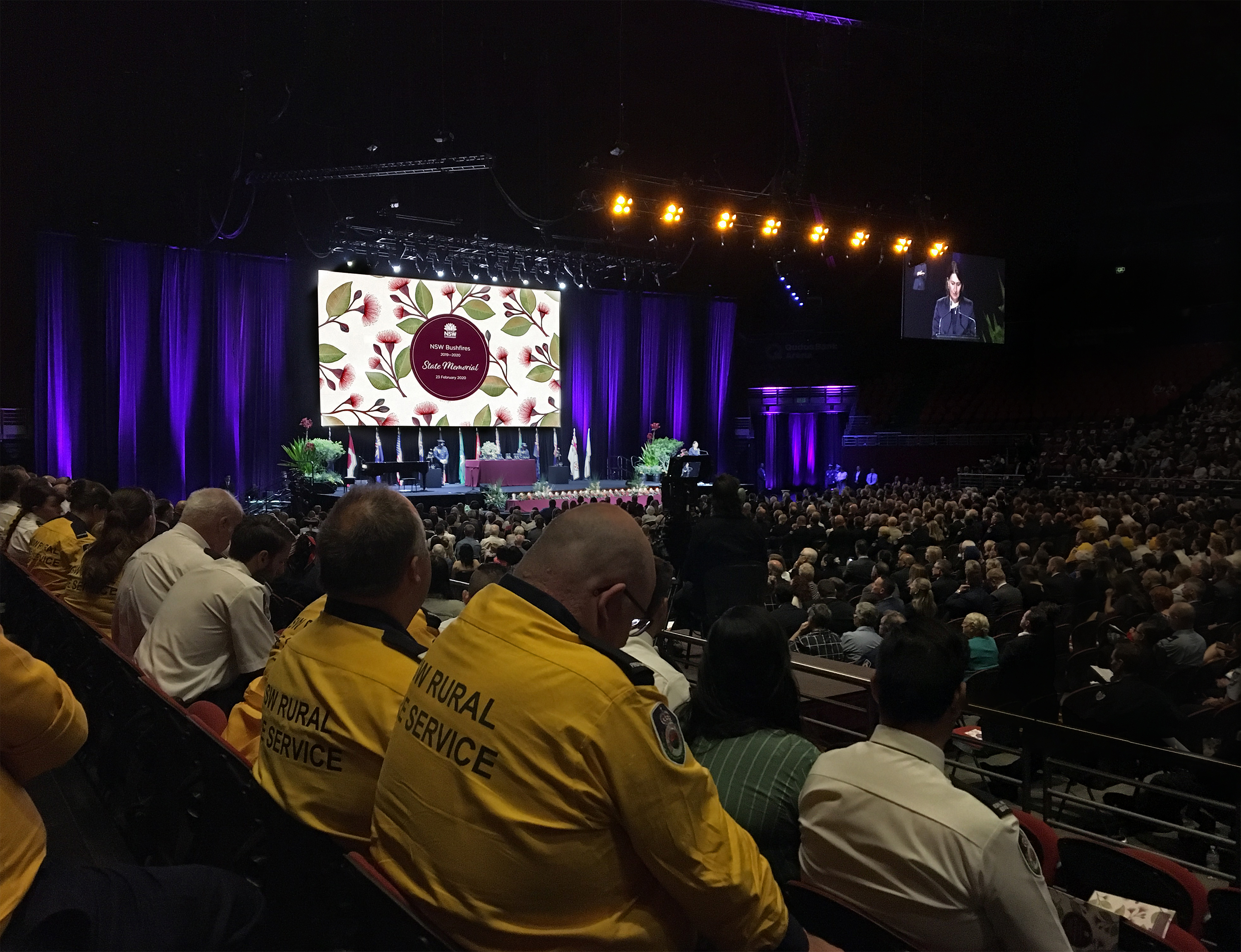 2019-20 NSW Bushfire State Memorial at Qudos Bank Arena